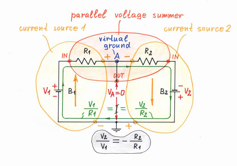 Two resistors in series (a voltage divider) act as a parallel voltage summer